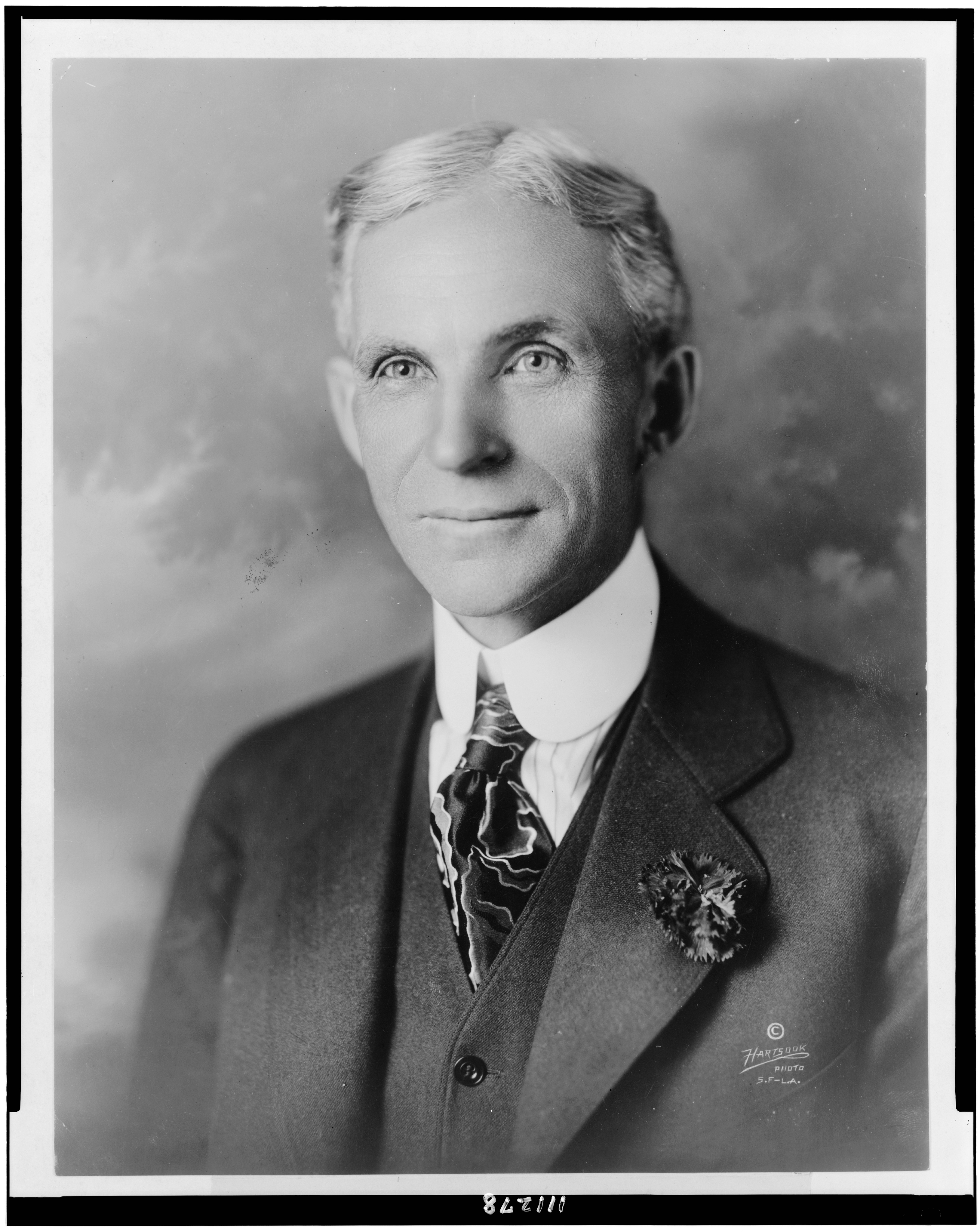 Henry Ford in 1919